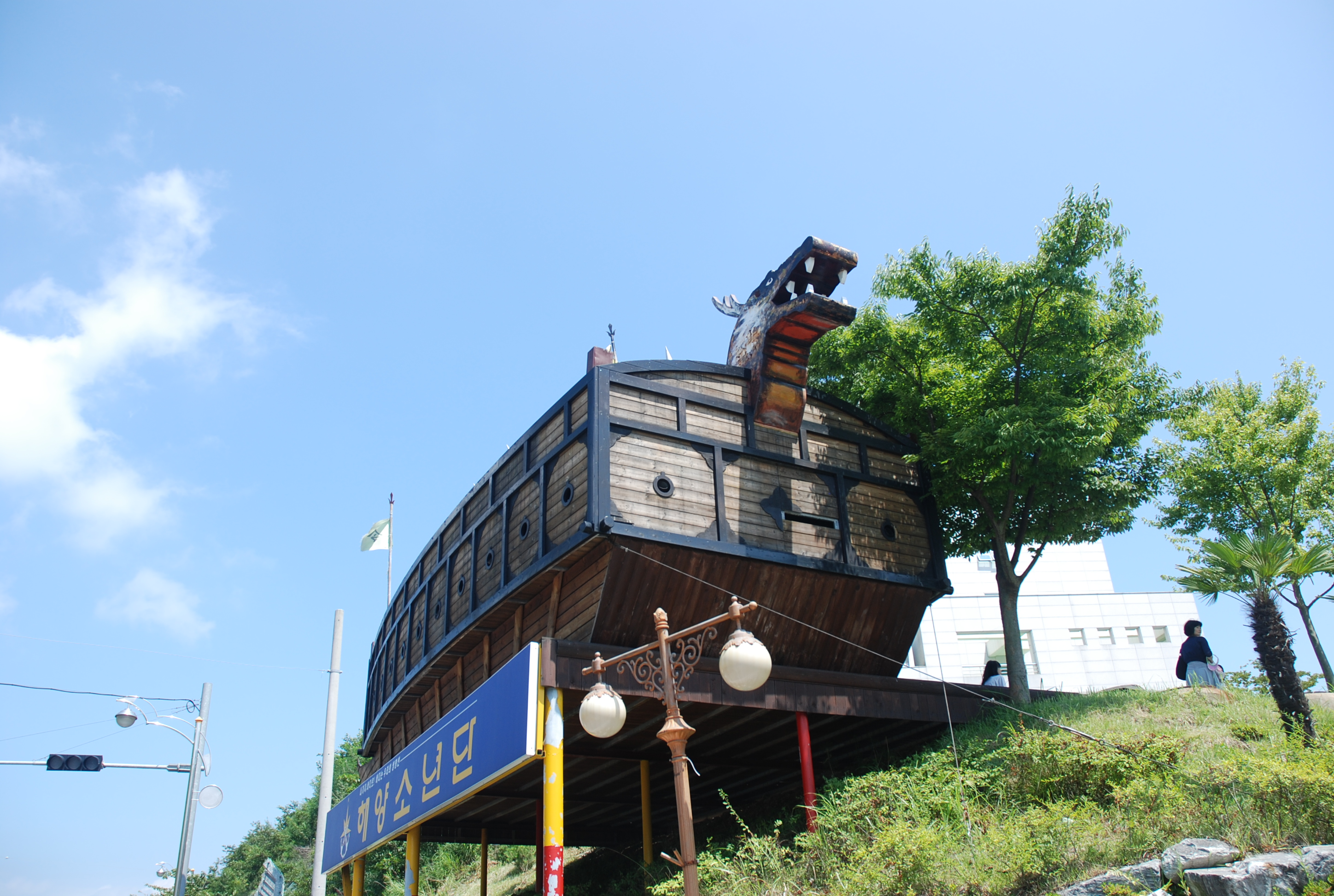 Turtleship in Tongyeong in front of Cable Car Station